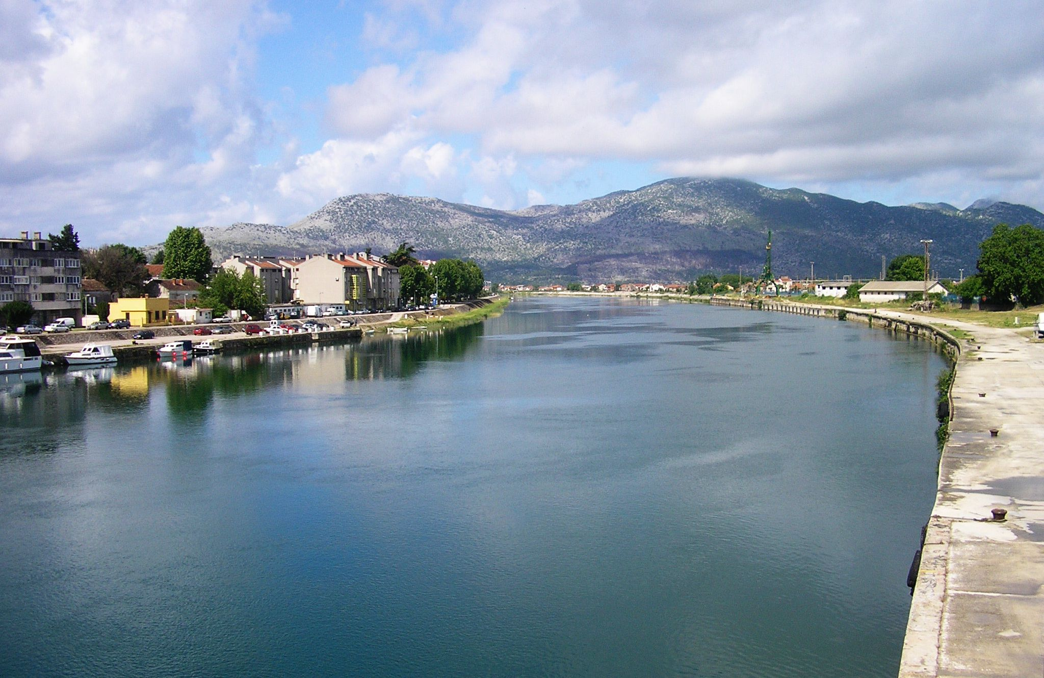 The Neretva river in Metković